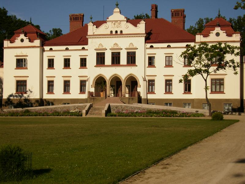 Central building of Rokiškis Palace